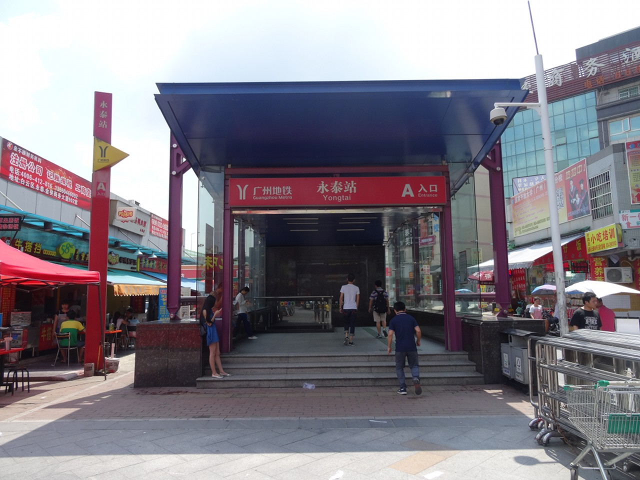 永泰站A出入口